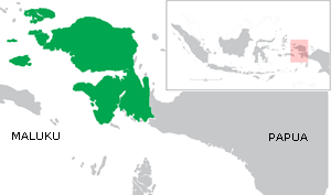 Map of the Indonesian province of West Irian Jaya.